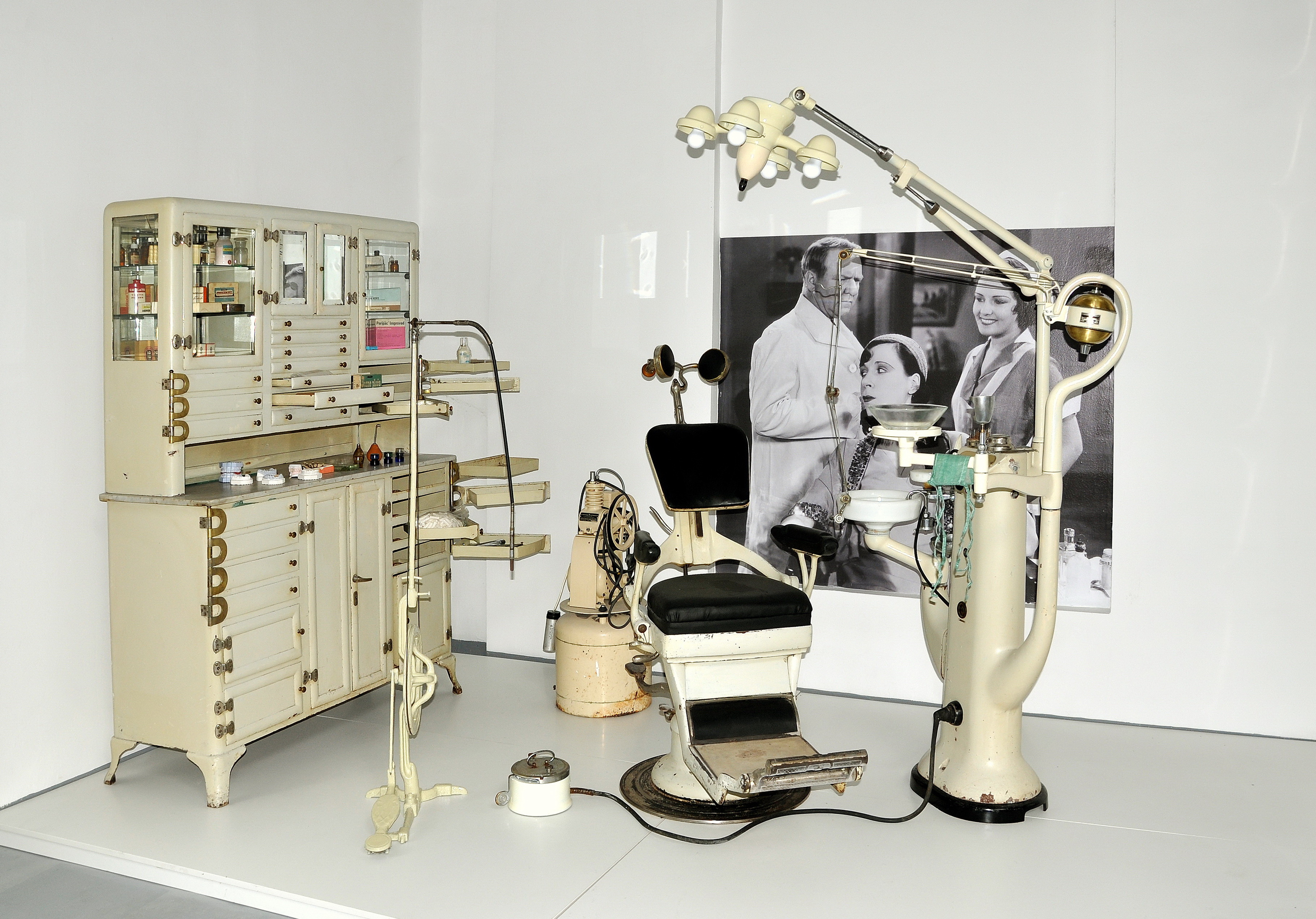 Dental clinic. It is located in Museum of Science and Technology Belgrade.